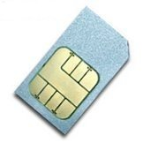 a mini-sim card